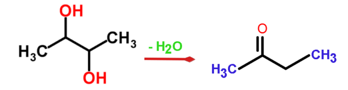 Methyl ethyl ketone synthesis from 2,3-butadiol